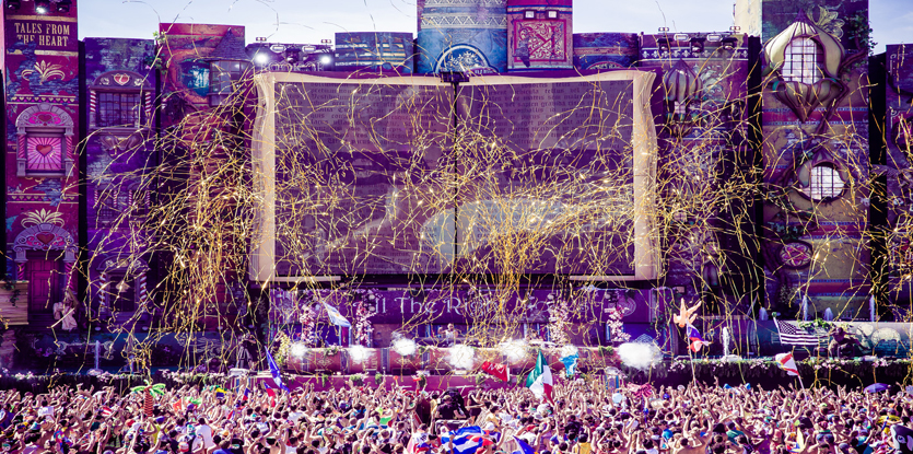 Tomorrowland 2012, Boom, Belgium.